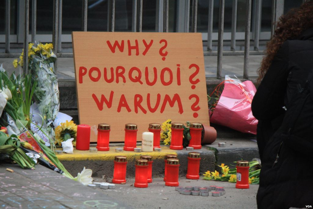 A placard outside one of the entrances to the Maelbeek metro station asks ‘why’ while other writing expresses calls for both peace and anger in Brussels, Belgium, March 24, 2016. (H. Murdock/VOA